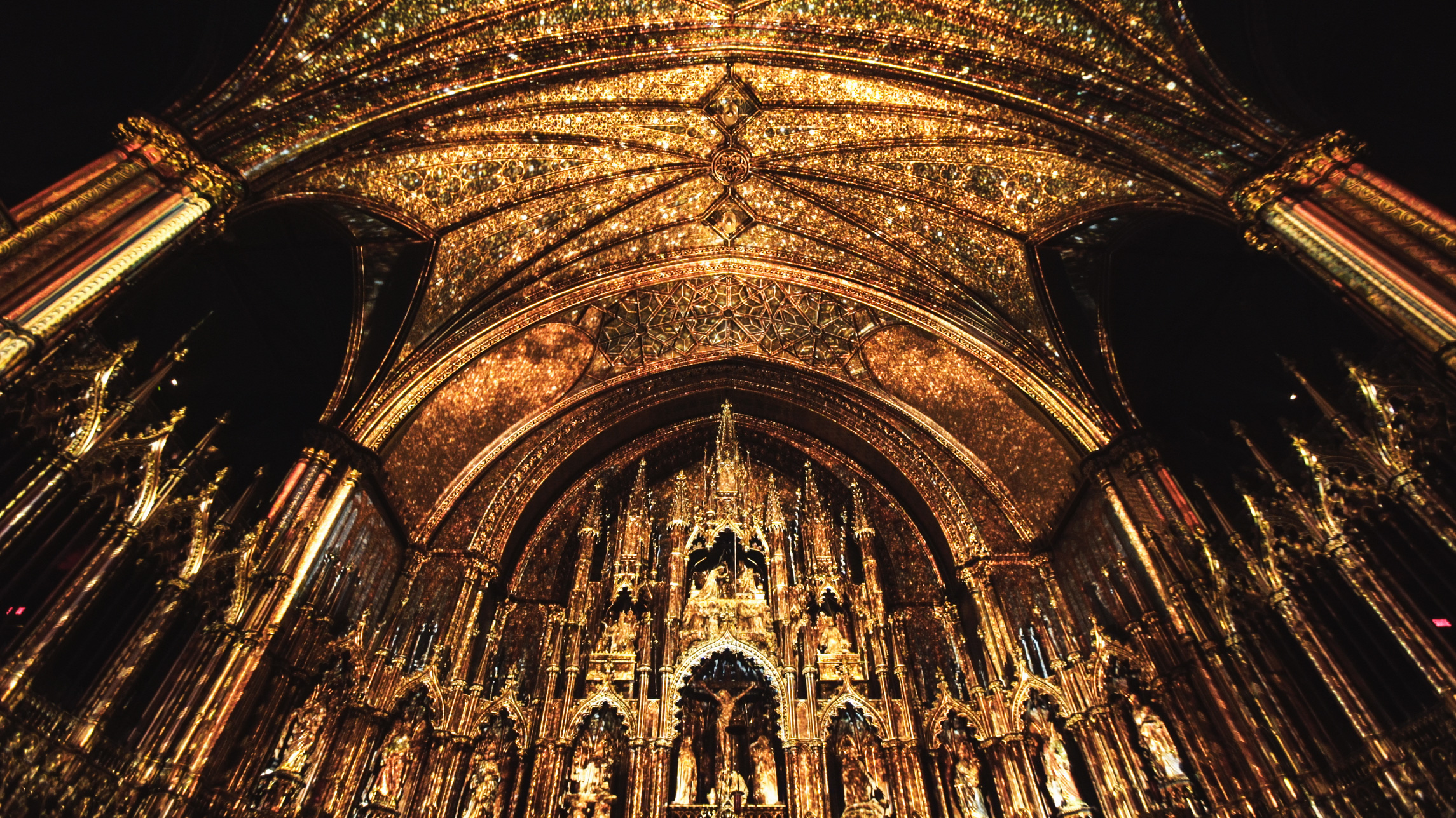 Official site